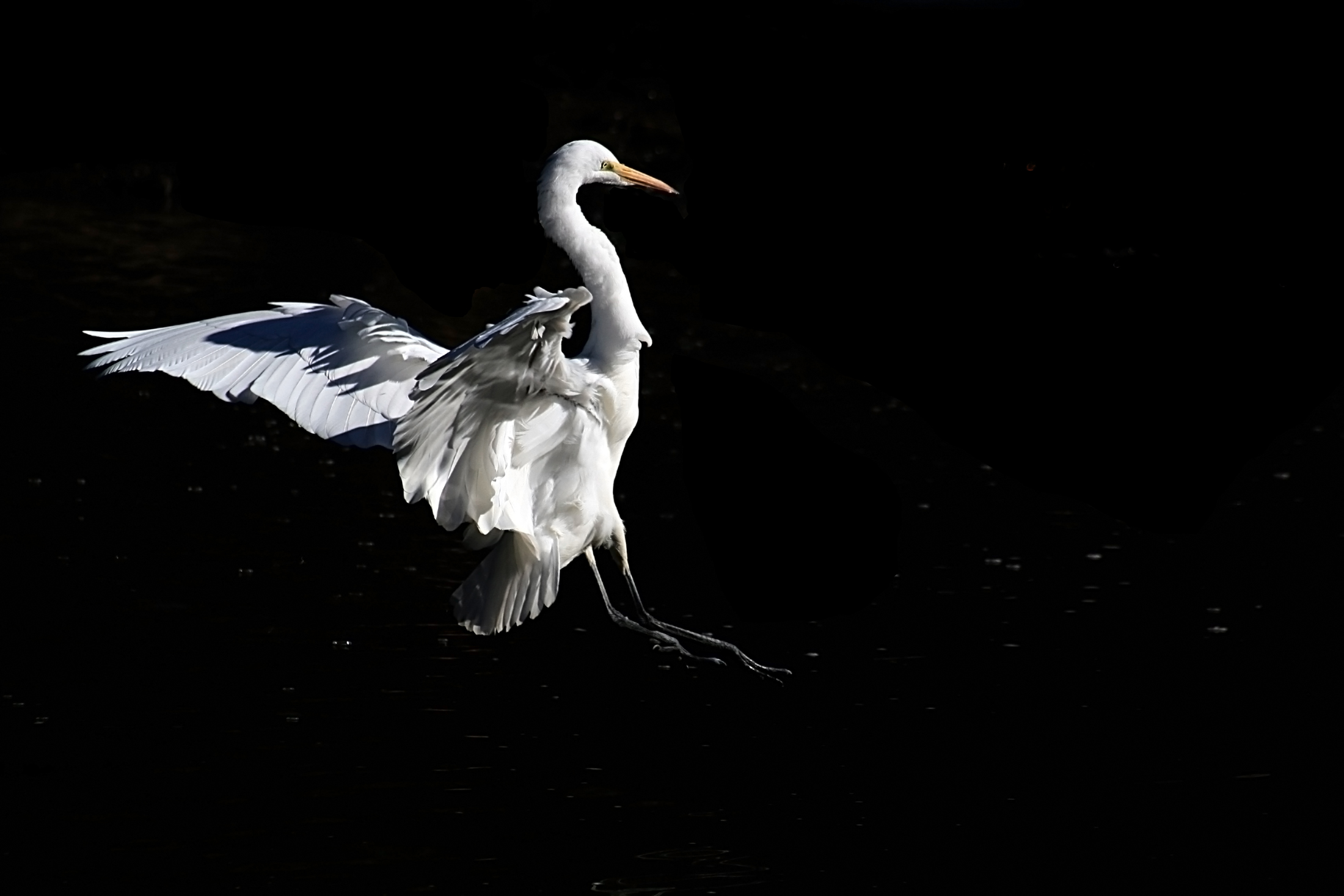 Great Egret is about to land in a lake in Golden Gate Park